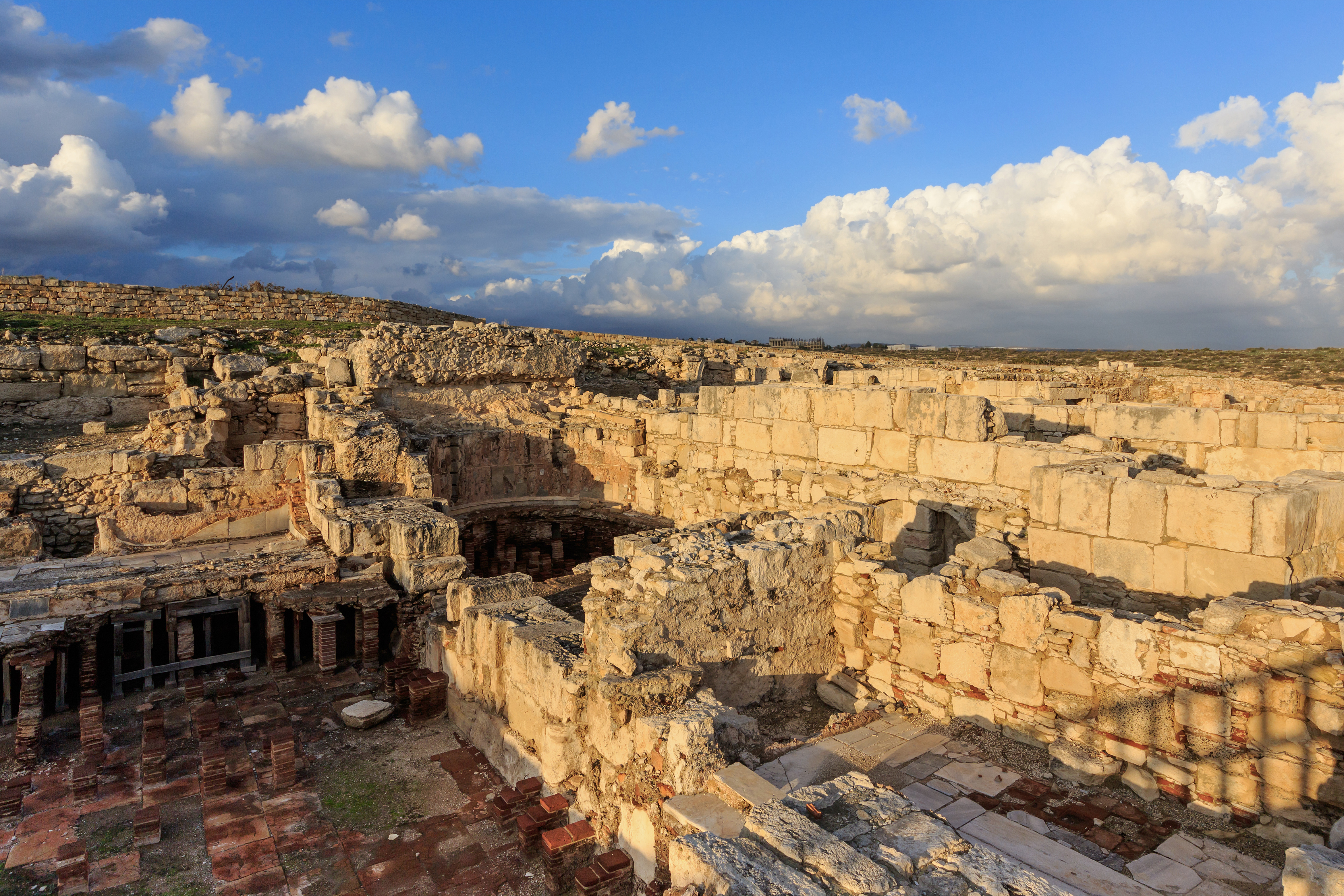 Ancient town of Kourion near Limassol, Cyprus. Public baths.